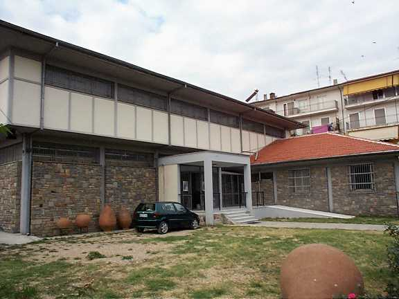 Outside view, image from the Archaeological and Byzantine Museum, Florina, West Macedonia, Greece